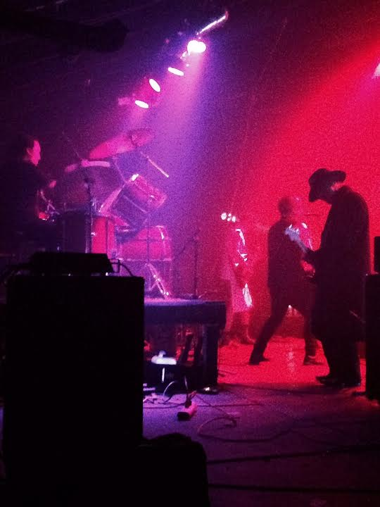 Burning Image performing at The Black Castle in Los Angeles, CA 4/11/15.